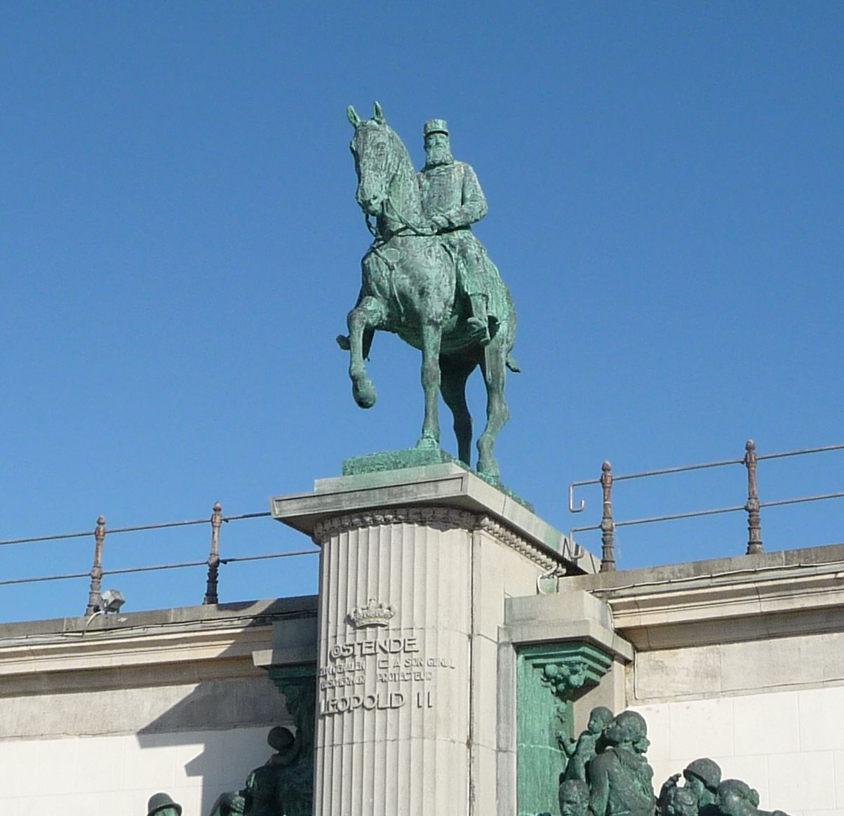 Oostende Beach. Monument by the sculptor Alfred Courtens (1889-1967) and the architect Antoine Courtens (1899-1969).